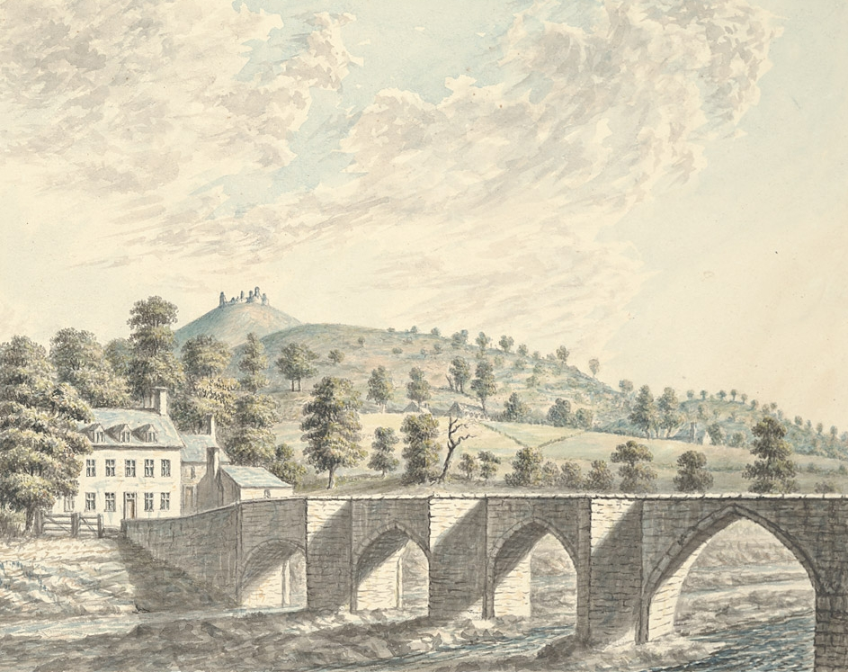 Llangollen, Castle Dinas Bran, 1793